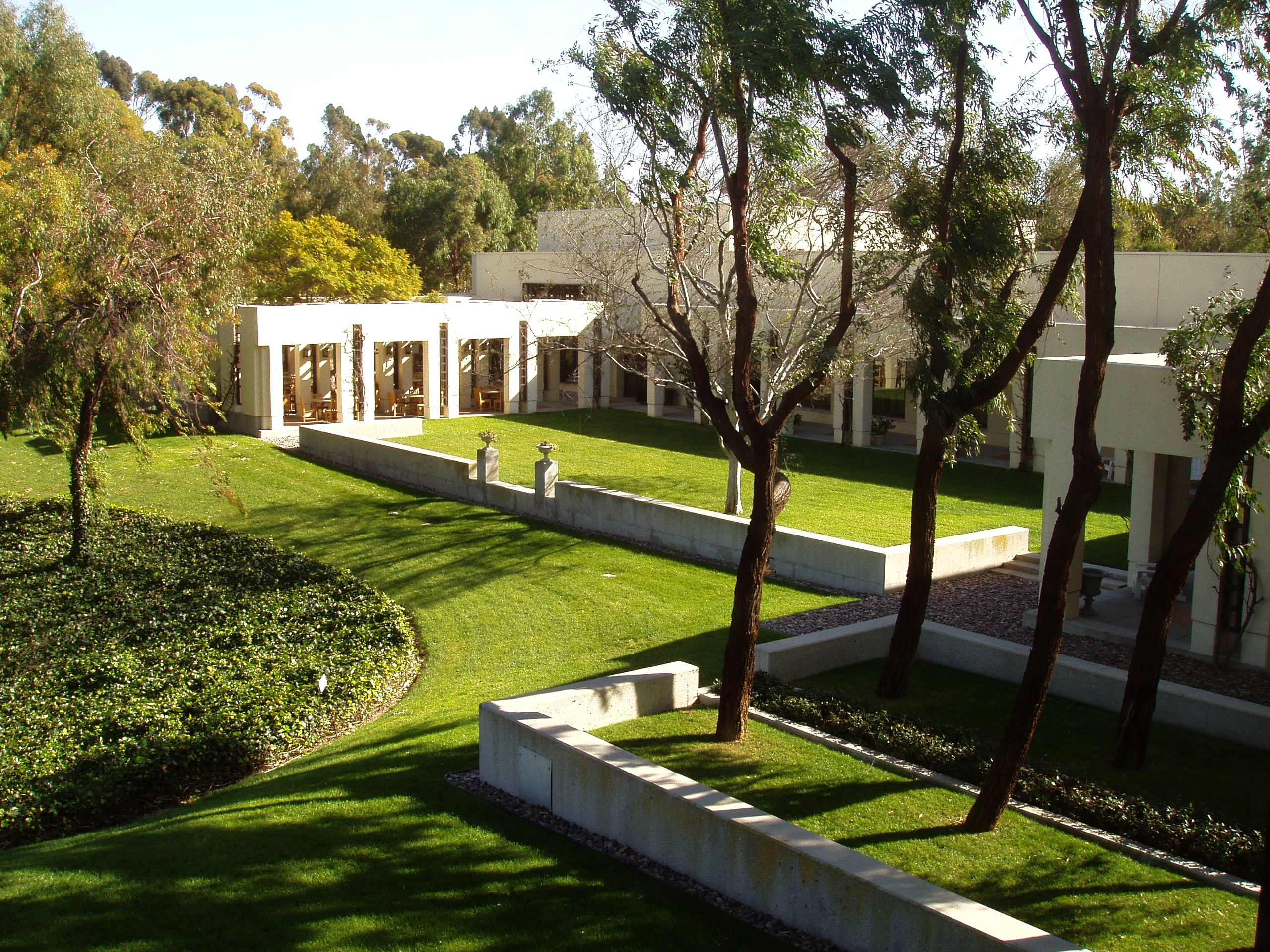 Beckman Conference Center, National Academies of Sciences and Engineering (USA), located in Irvine, California. Photograph taken by me, January 2006.